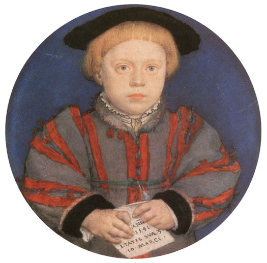 Portrait Miniature of Charles Brandon, 3rd Duke of Suffolk (1537-1551), son of Charles Brandon, 1st Duke of Suffolk, and Catherine Willoughby. Miniature by Hans Holbein the Younger, vellum mounted on playing card, 5.7 cm in diameter. Royal Collection at Windsor Castle. Charles Brandon and his brother Henry (right) were tutored first by Thomas Wilson and later, with Edward VI, by John Cheke. Henry inherited his father's title in 1545. The brothers went on to St John's College, Cambridge, but they died of the sweating sickness in 1551. Since Henry died about an hour before his brother, Charles is deemed to have succeeded him as Duke of Suffolk. (John Rowlands, Holbein: The Paintings of Hans Holbein the Younger, Boston: David R. Godine, 1985, ISBN 0879235780, pp. 151–52.)